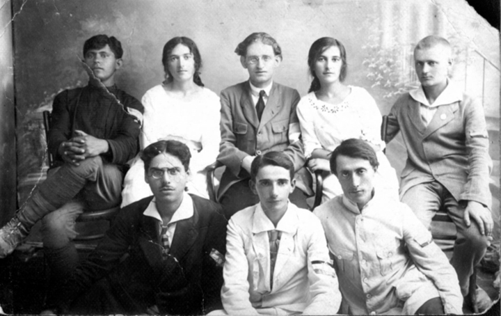 Unknown Photographer Isarel Hirschfeld with David Benvenisti group of Travelers Undated Photograph 8.6 x 13.5 cm Bequest of the artist